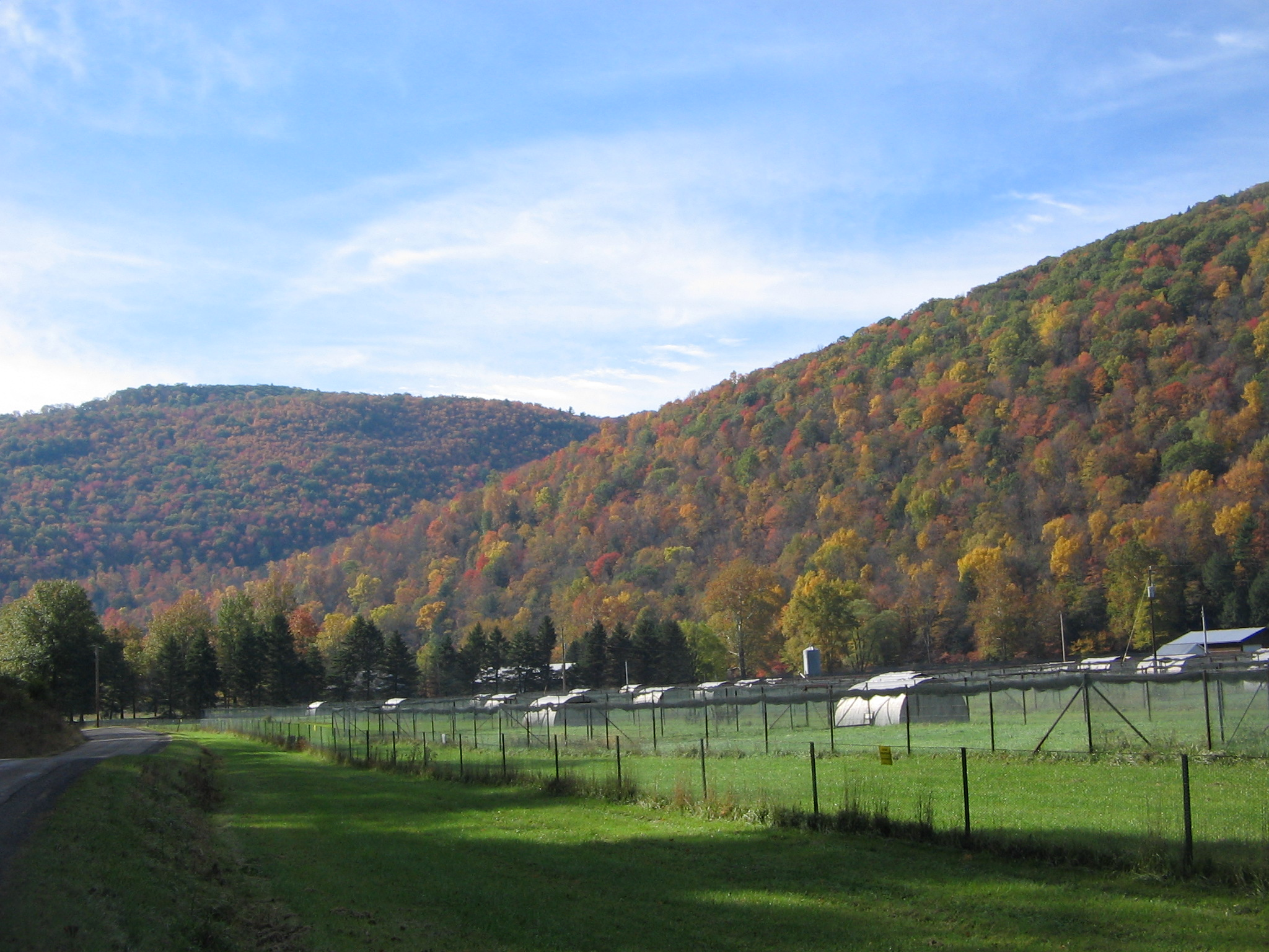 Northcentral State Game Farm pheasant huts and enclosures, along Plunketts Creek, in Plunketts Creek Township, Lycoming County, Pennsylvania, United States